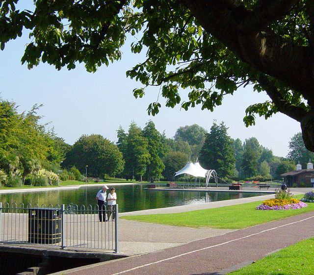 Eastrop Park This popular and attractive park is only a short walk from Basingstoke shopping centre, bus station and railway station. The River Loddon runs through the park, feeding into a balancing pond in the wildlife area. The park also has a boating lake, tree trail, children's play area, paddling pool and crazy golf. A programme of summer events includes band concerts under the canopy (the membrane structure visible in the photo). The park has two free car parks.